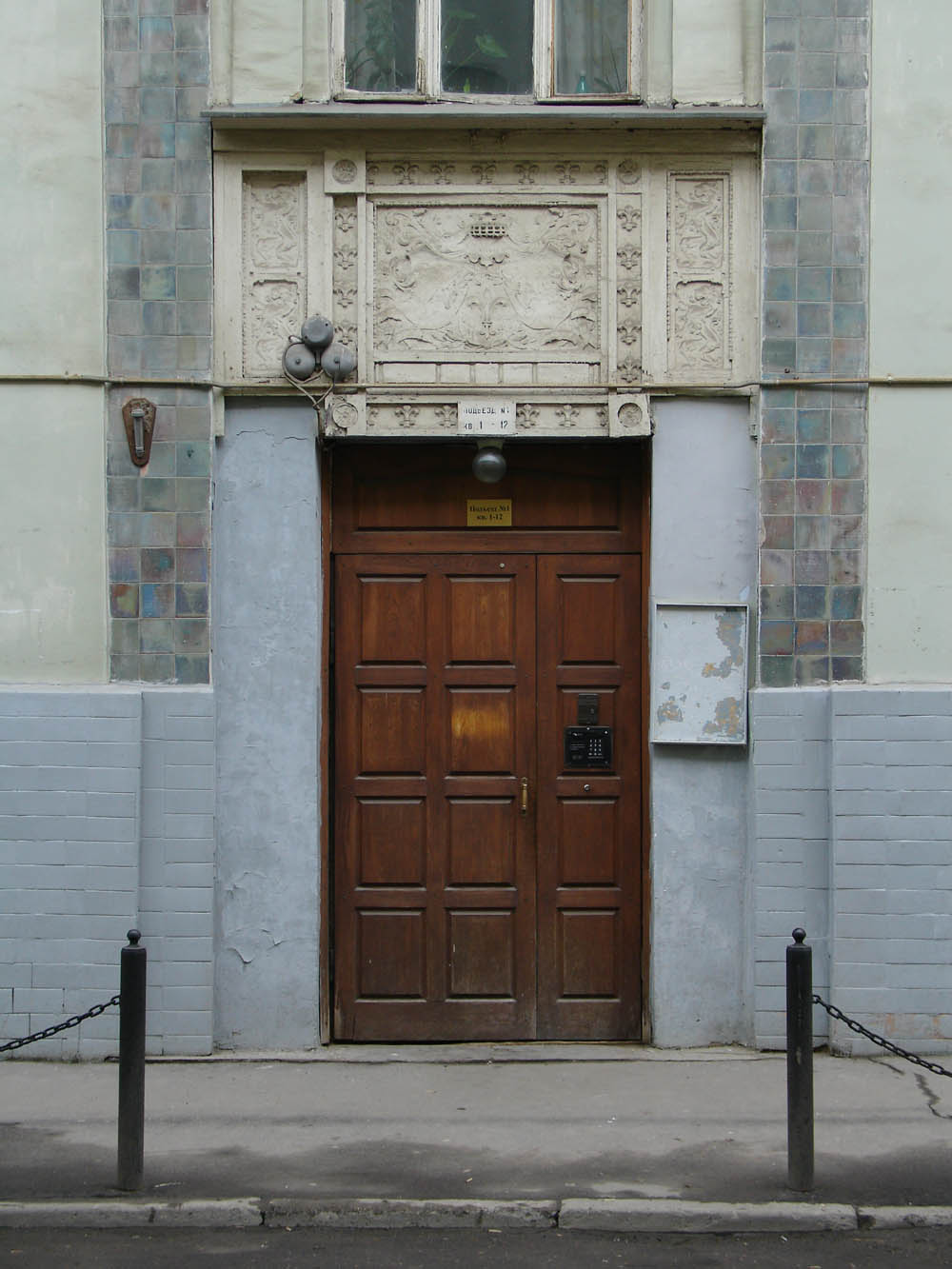 Doors, Maly Mogiltsevsky Lane, Moscow, architect: Nikolai Zherikhov, 1900s